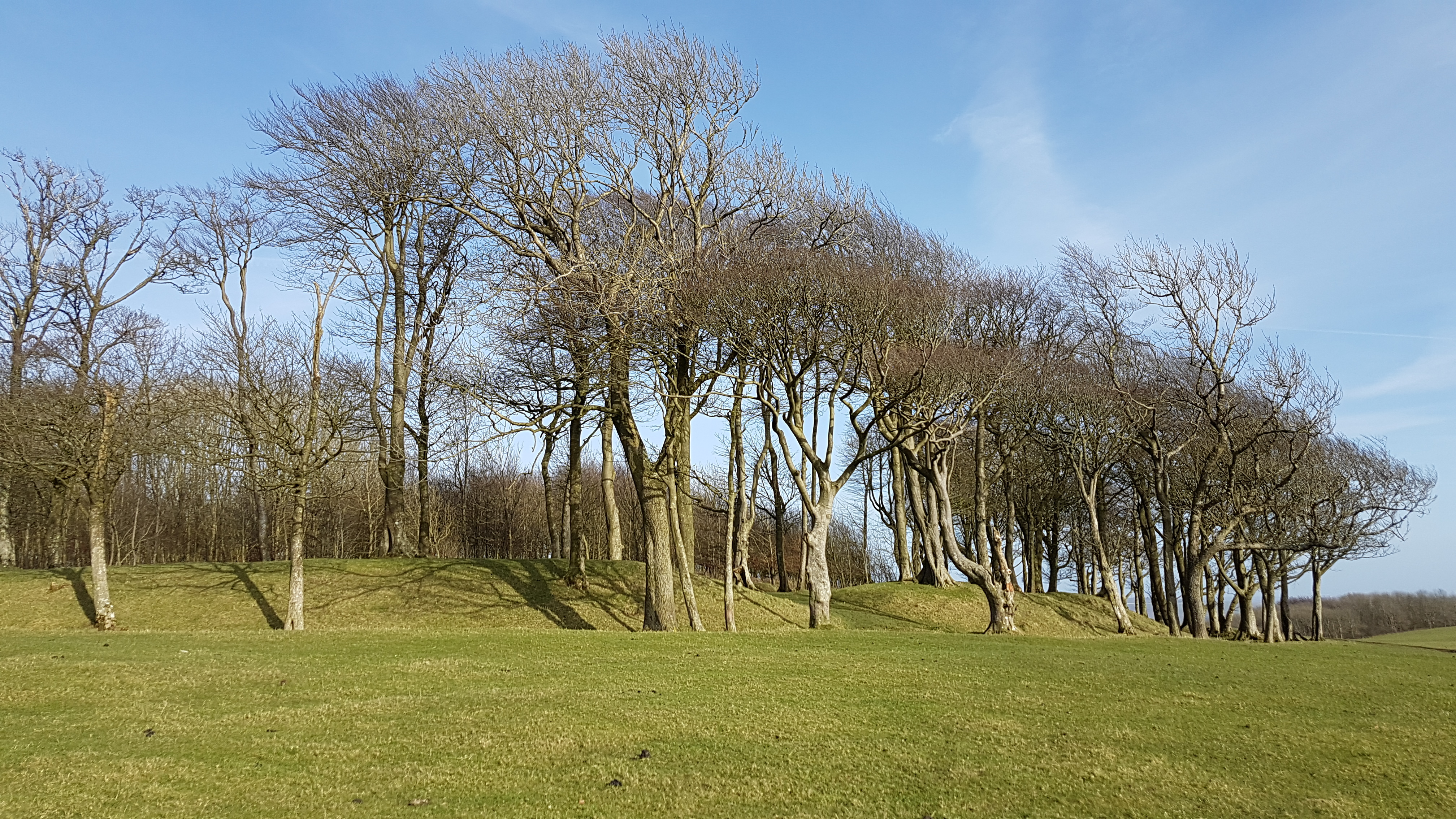 View of Chanctonbury Ring's south-west quadrant showing the raised bank and south-western entrance